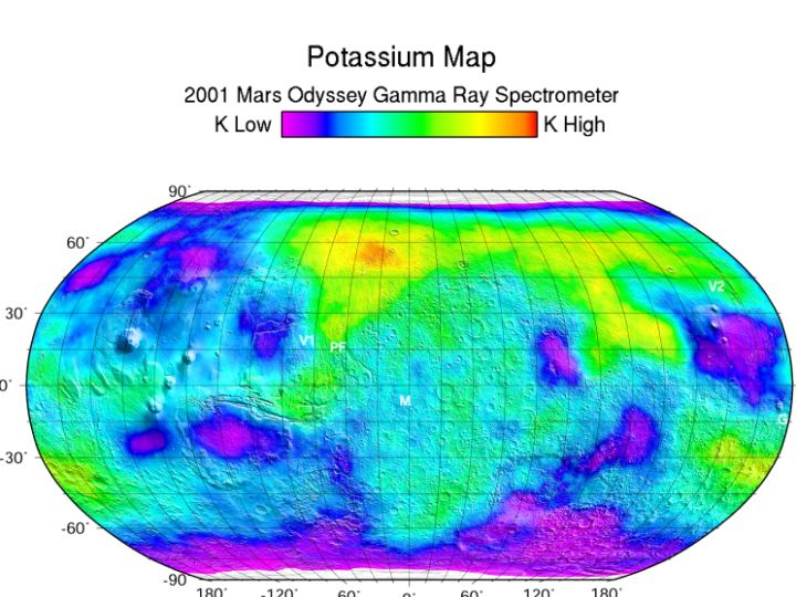 Potassium Global Map of Mars taken by GRS instrument